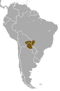 White-coated Titi (Callicebus pallescens) range